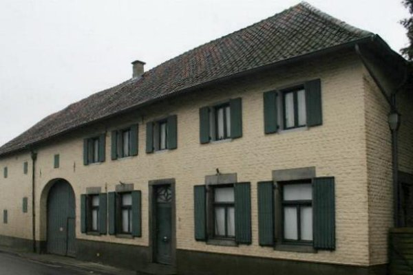 Cultural heritage monument No. 27 in Selfkant